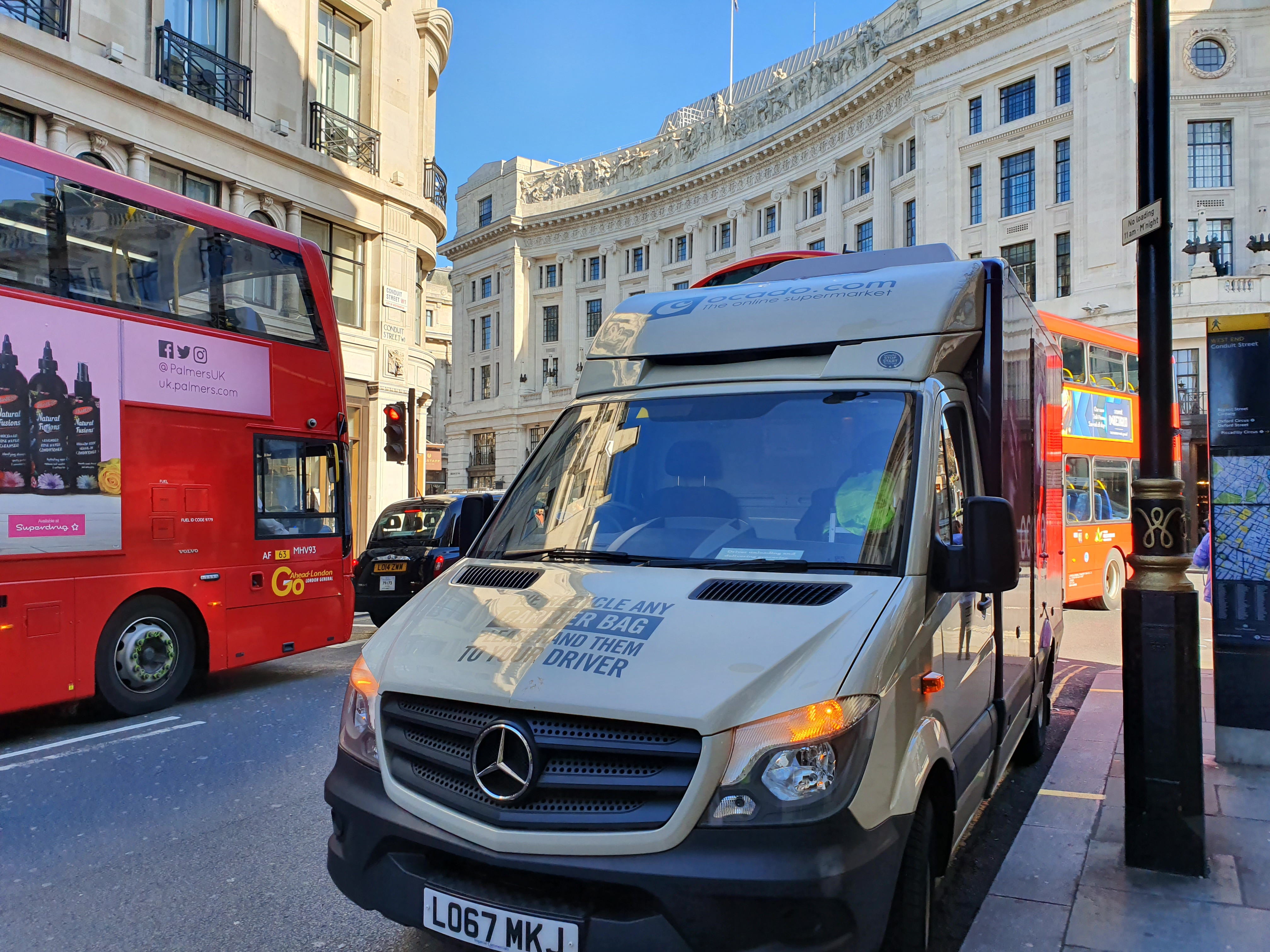 Ocado van parked on a busy road in Central London